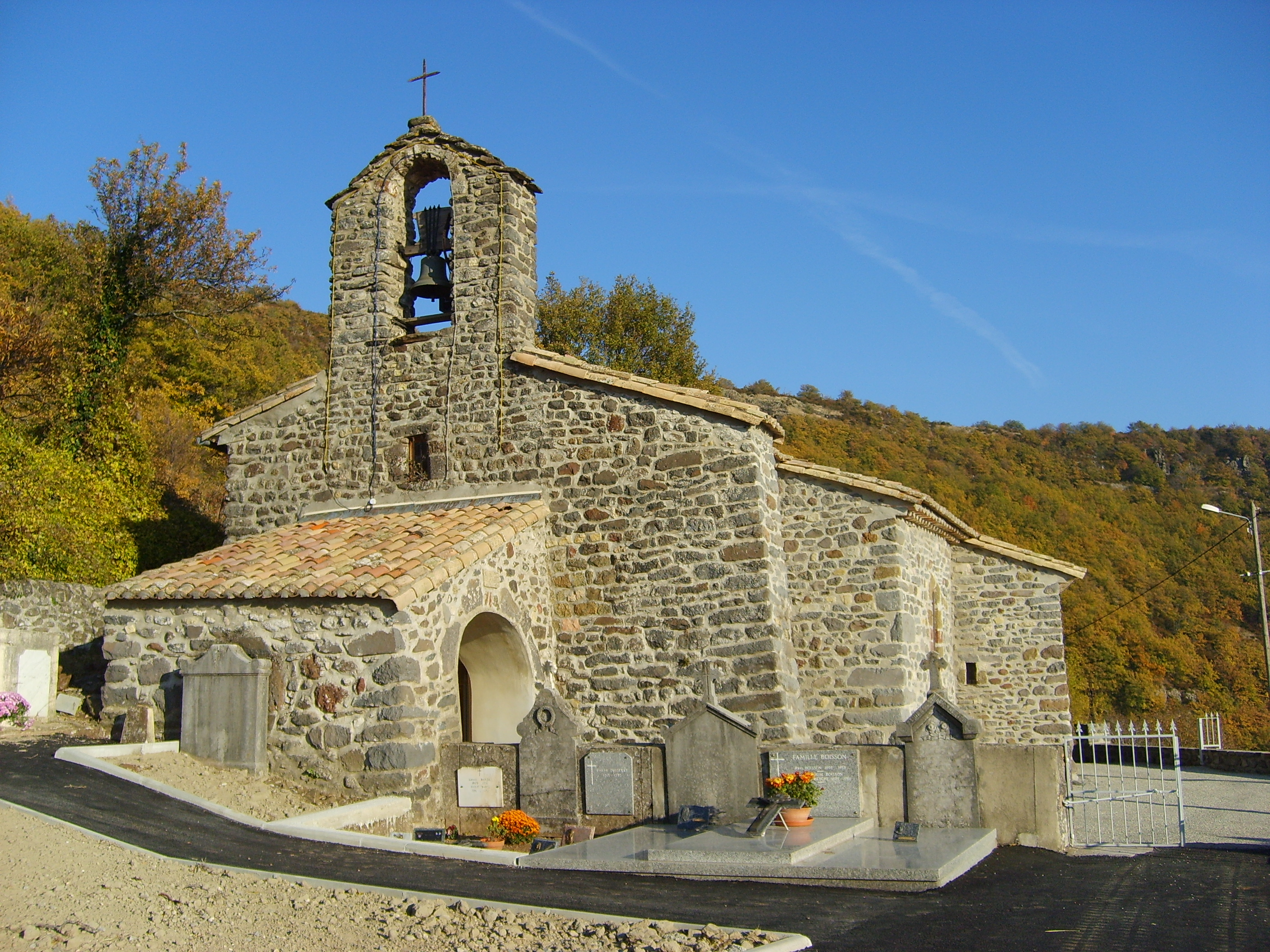 Eglise de Saint Pierre la Roche